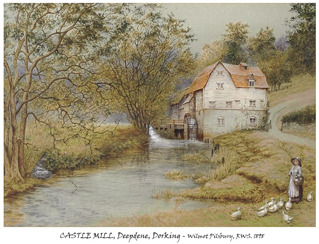 CASTLE Mill on the river Mole at Deepdene, Dorking, Surrey, England.. Painted i n 1898.